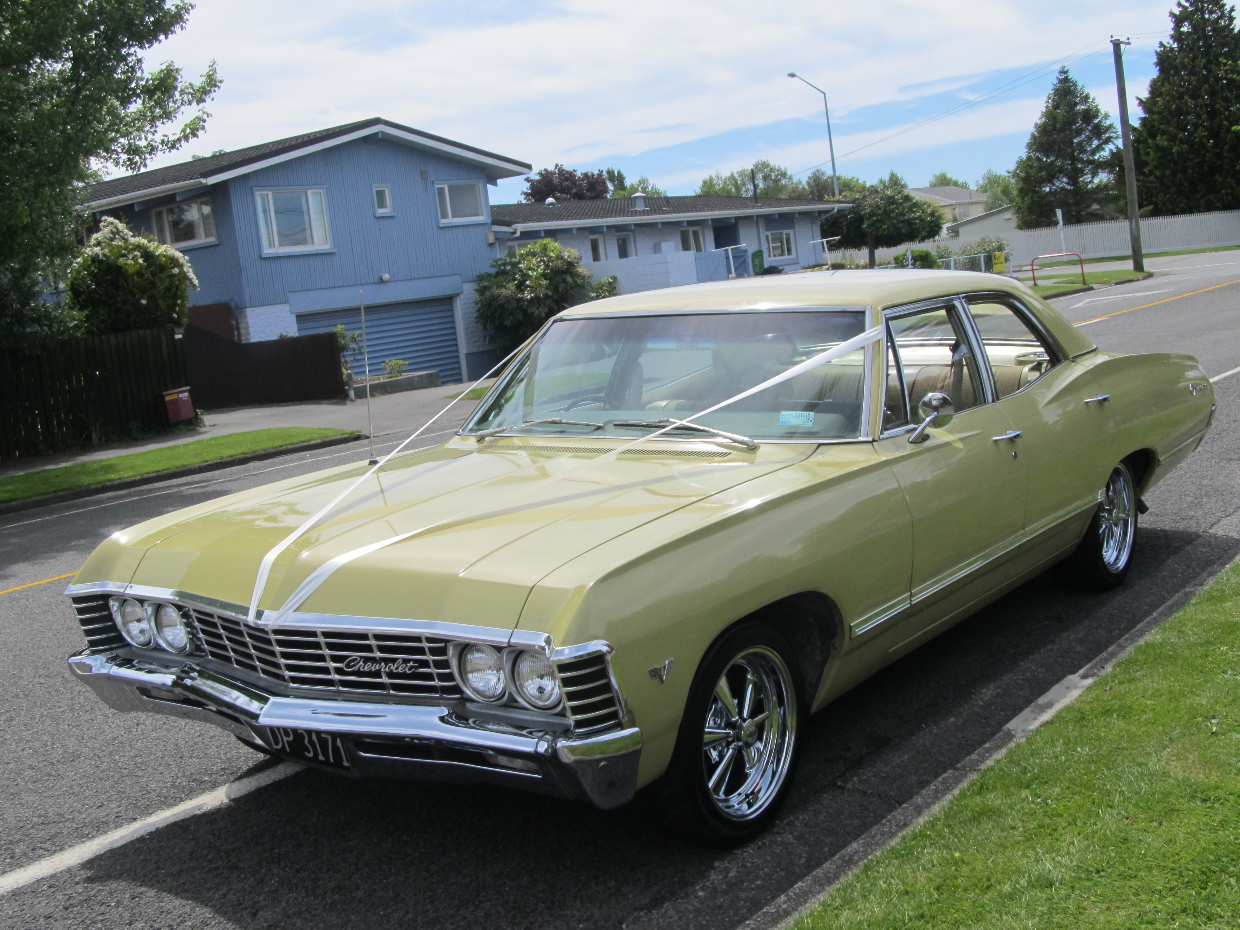 A mint original RHD Impala that was being used as a wedding guy when I spotted it way back in 2011. Not quite sure why the pic is on such an angle...